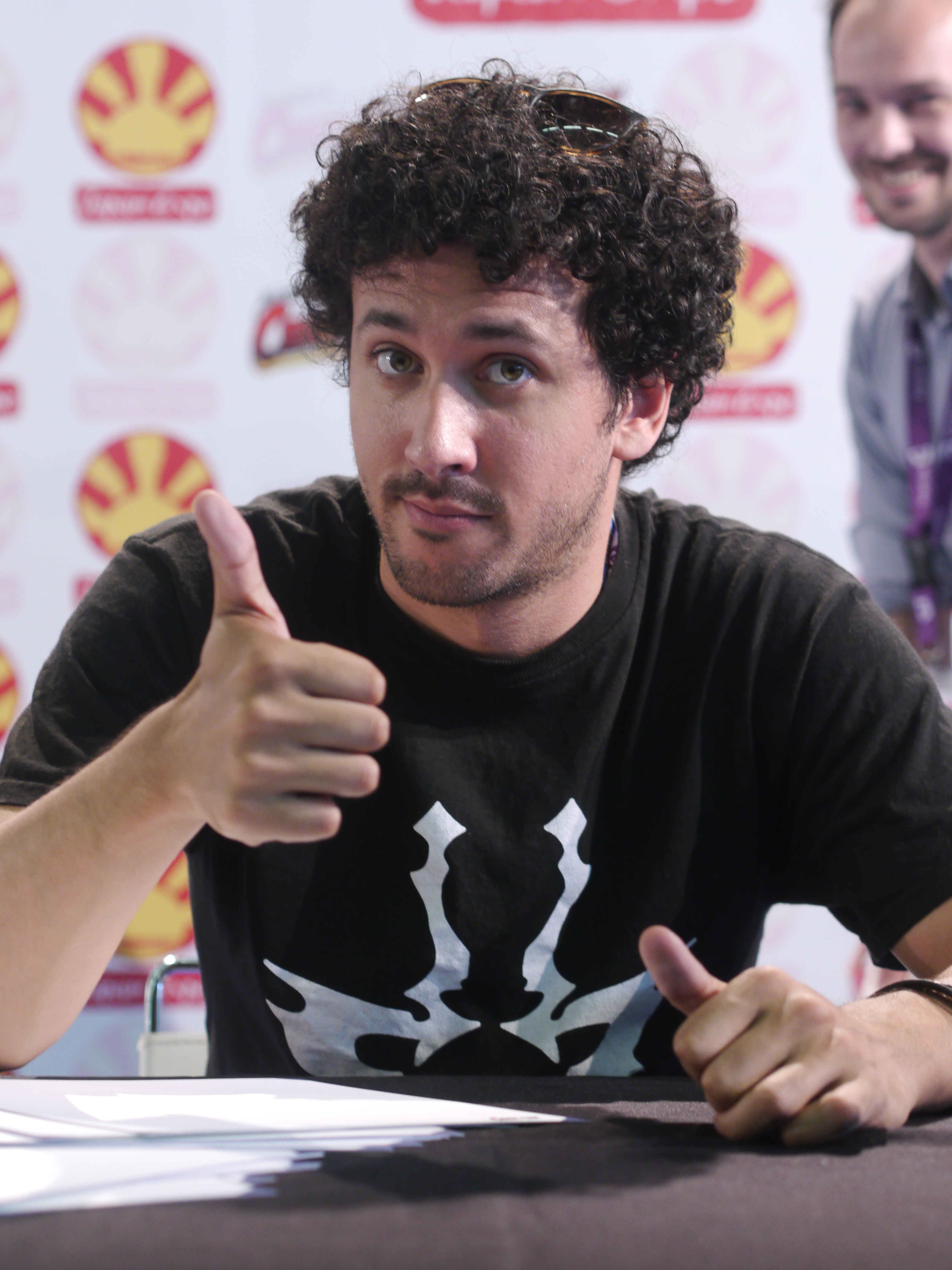 Japan Expo Festival, 14th impact